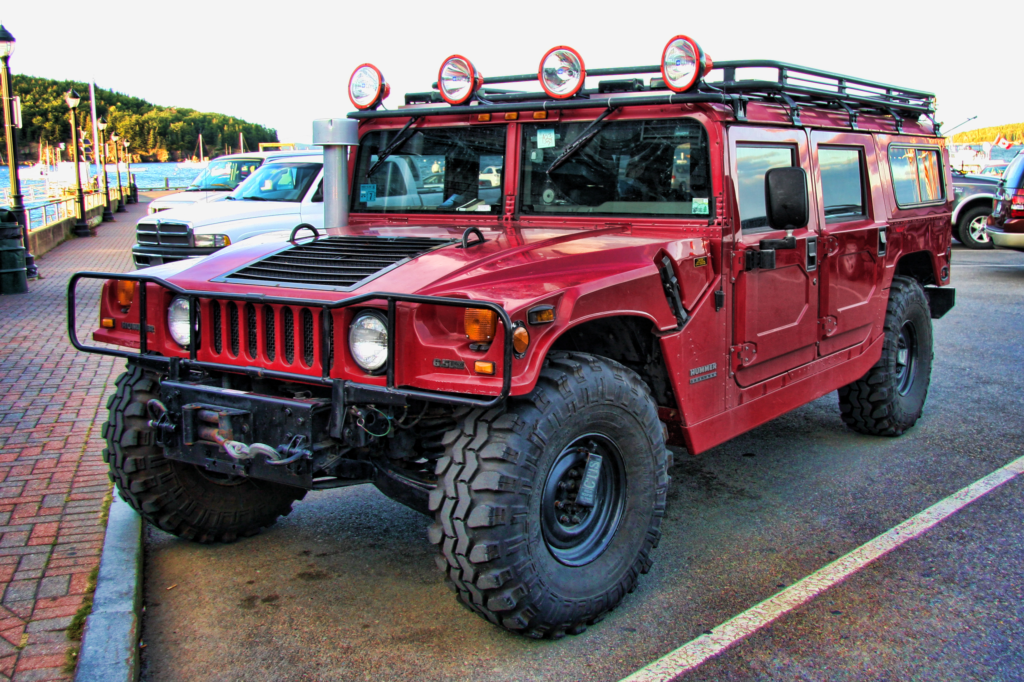 They got that right...